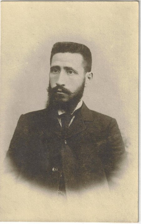 Michail Razvigoroff (*1873,†1907)